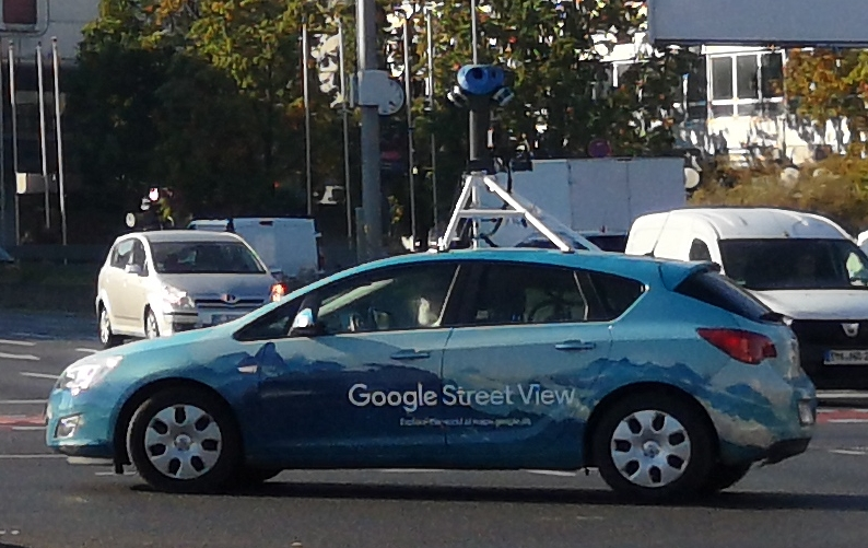 Camera car of Google street view in front of ICC in Berlin